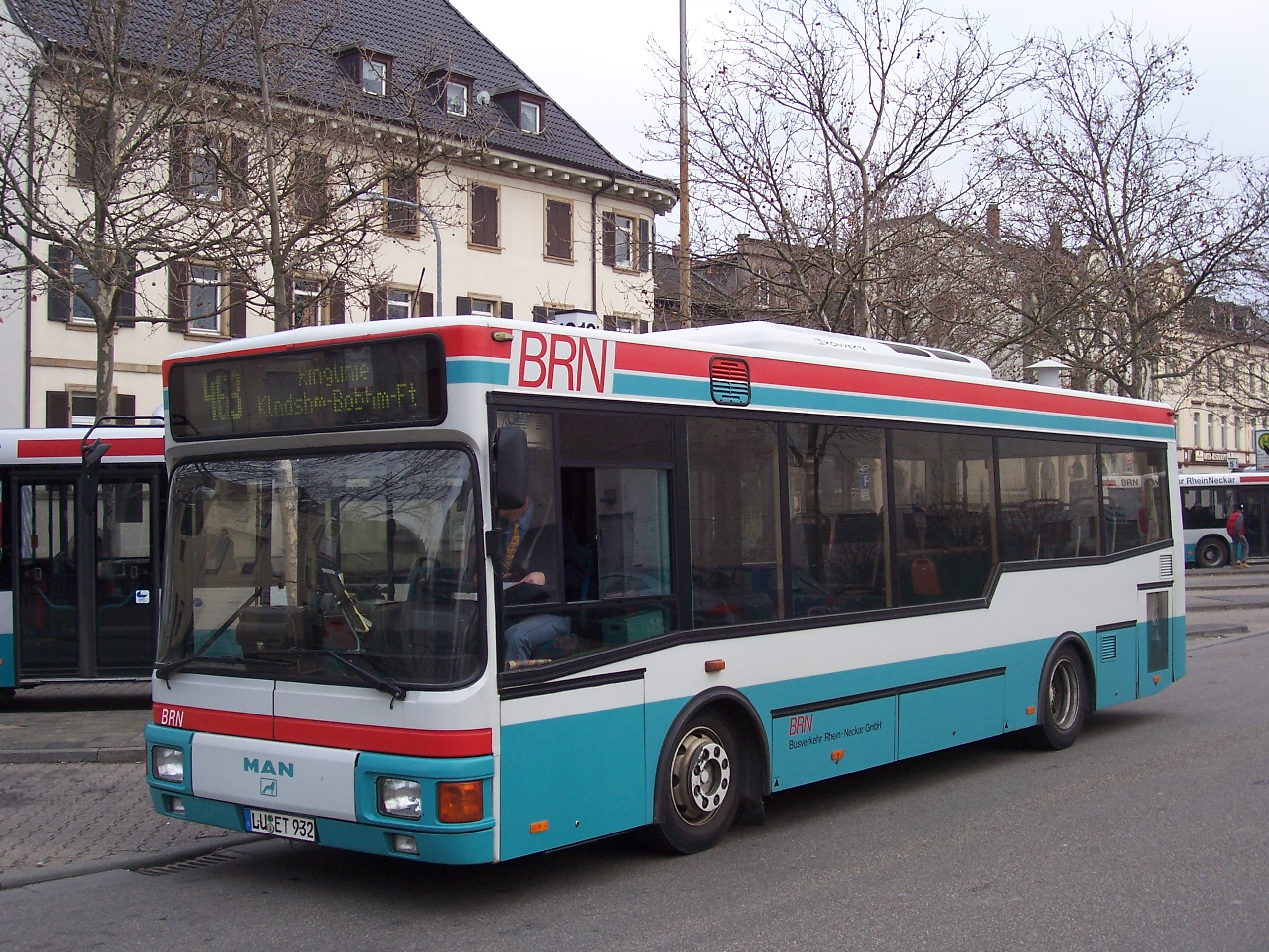 A MAN/Göppel NM 222 midibus (reg. LU-ET 932) in Frankenthal, Germany. Busverkehr Rhein-Neckar GmbH operator.